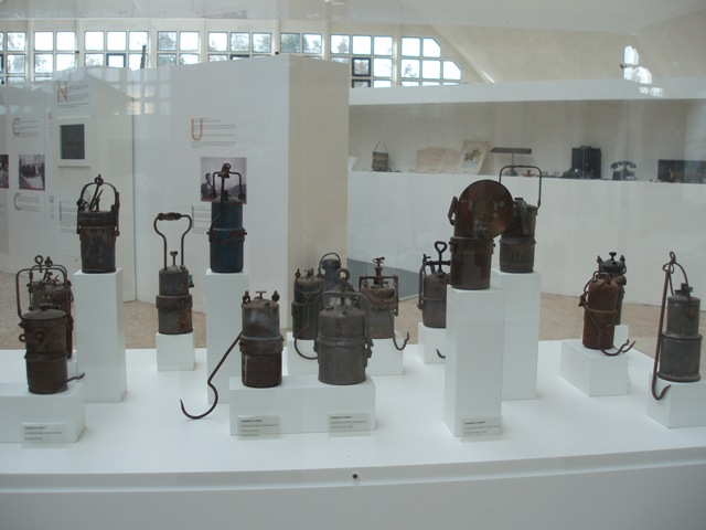 Lampade da miniera